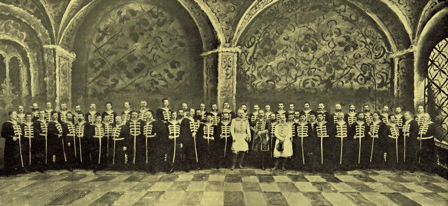 Photo of the orchestra of the Imperial Mariinsky Theatre at the 1903 costume Ball of the Imperial Russian Court.